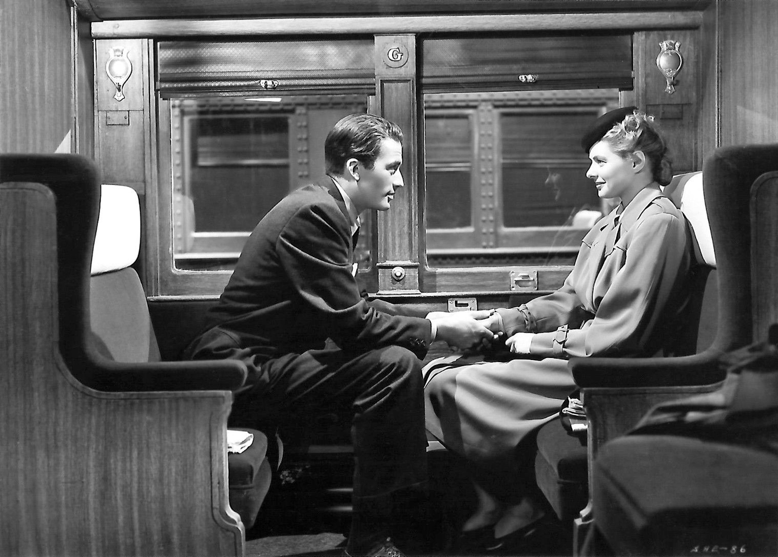 Promotional still from the 1945 film Spellbound, published in New Movies, the National Board of Review Magazine.